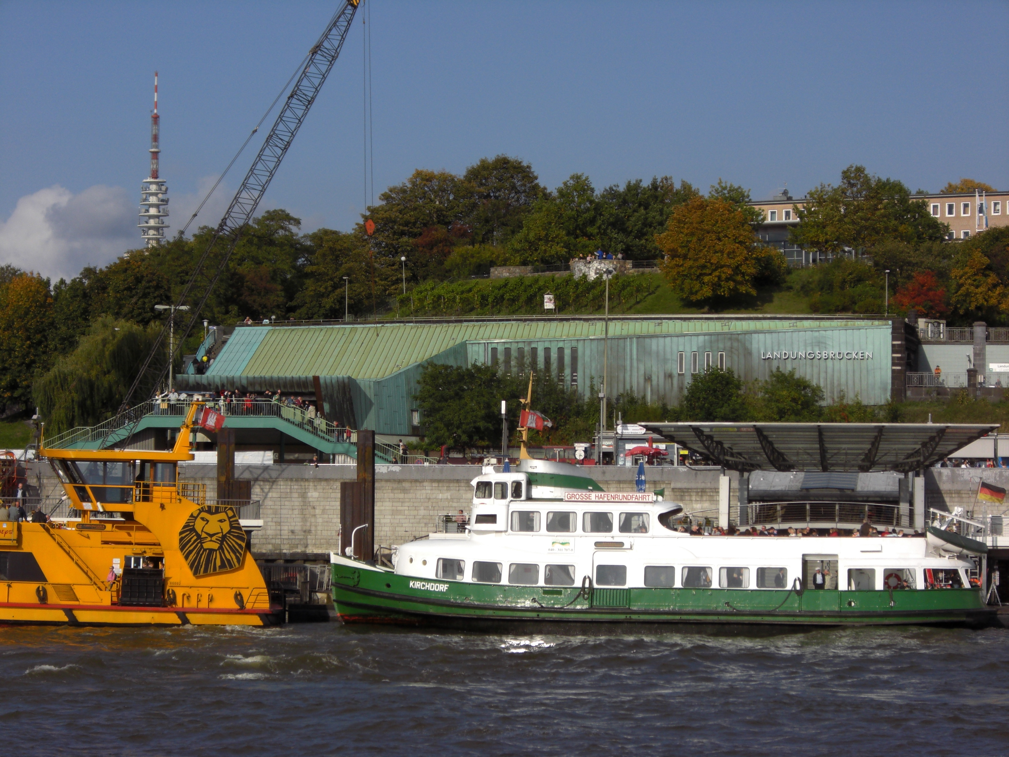 Subway and Suburban Rail station Landungsbrücken in Hamburg, shot from Elbe river ferry.